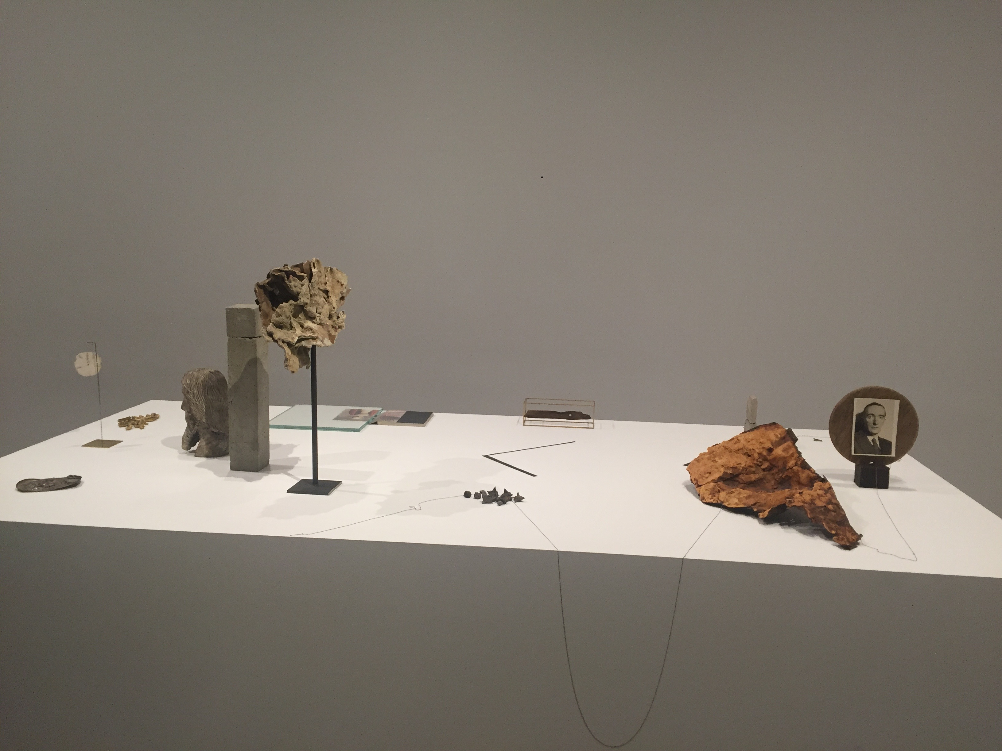 Carol Bove Installation at ICA, Boston